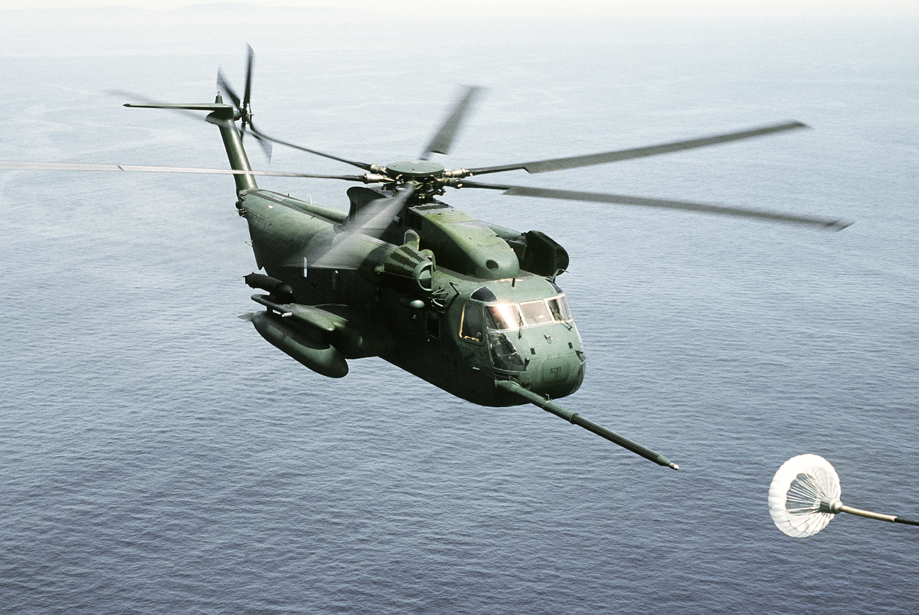 A U.S. Air Force Sikorsky HH-53C Super Jolly Green Giant helicopter assigned to the 67th Aerospace Rescue and Recovery Squadron, RAF Woodbridge, Suffolk (UK), approaching a tanker aircraft during exercise "Flintlock '87" on 13 April 1987. "Flintlock" was specifically designed to support U.S. Special Forces training requirements in overseas environments.